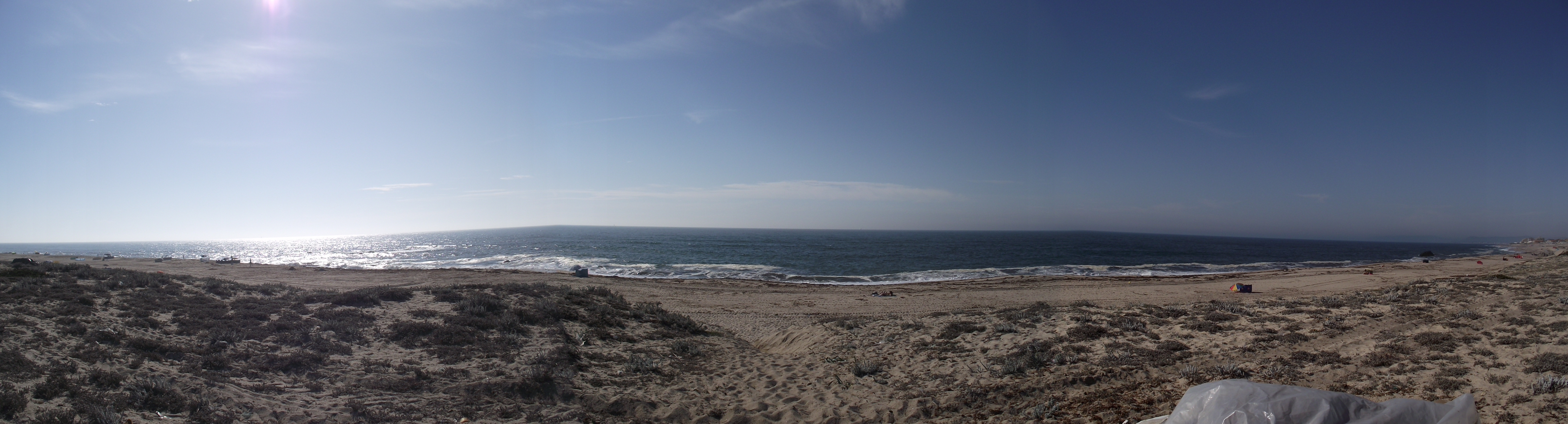 Panorama da praia de Santo André